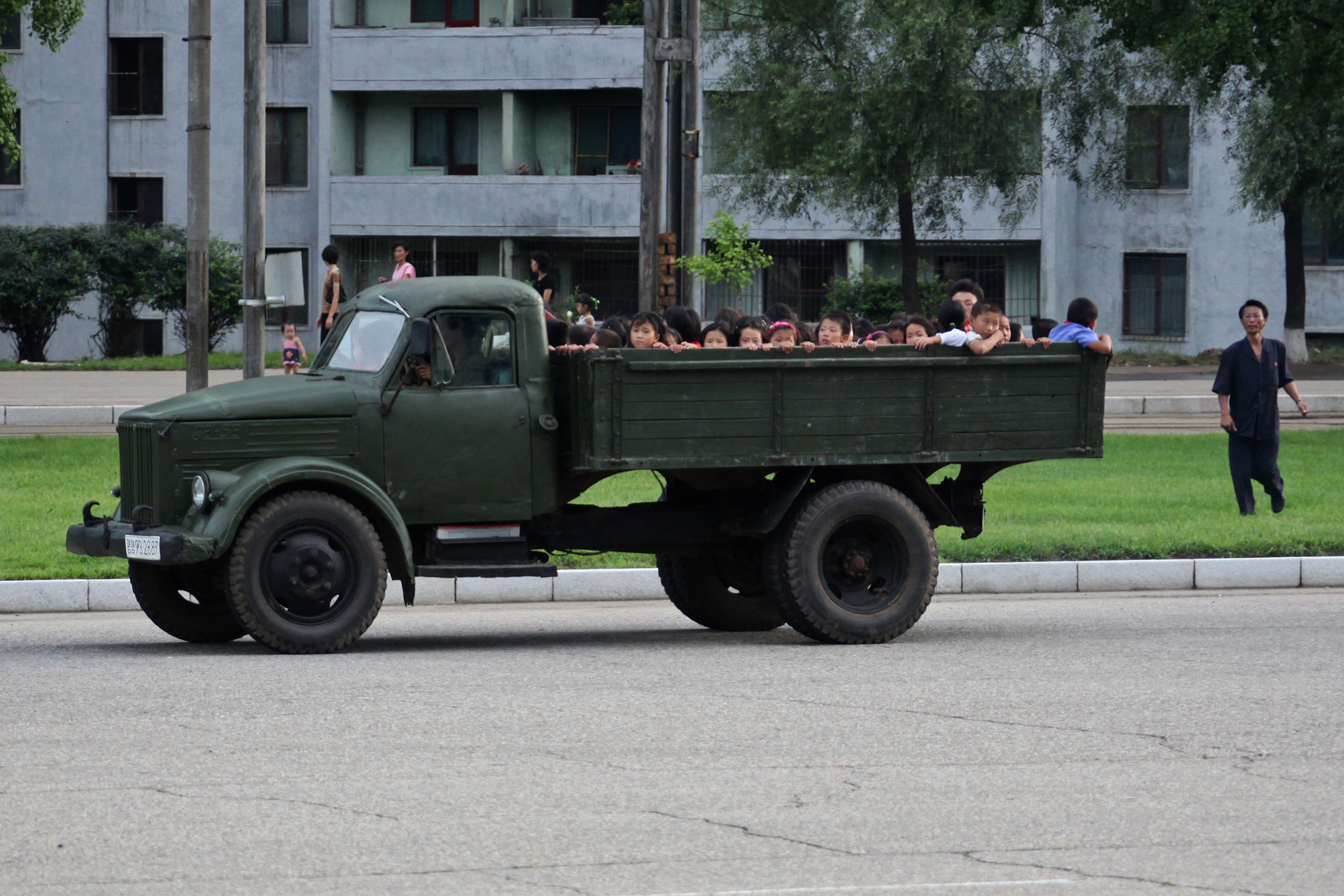 Children at the trip.